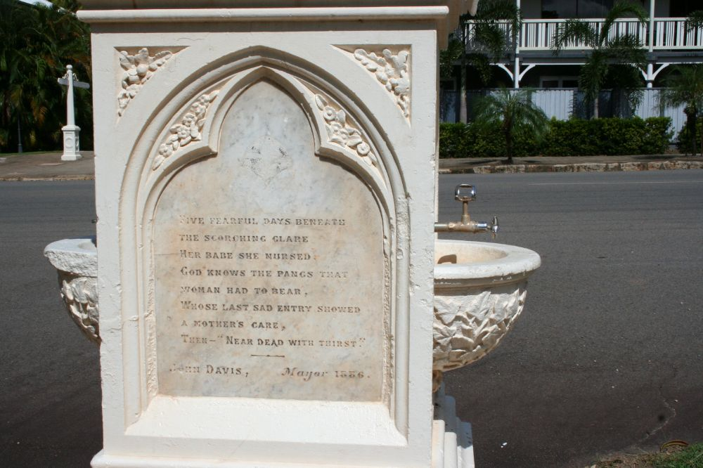 Mary Watson's Monument - poem (2010)